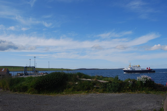 Ferry arriving, Eday pier